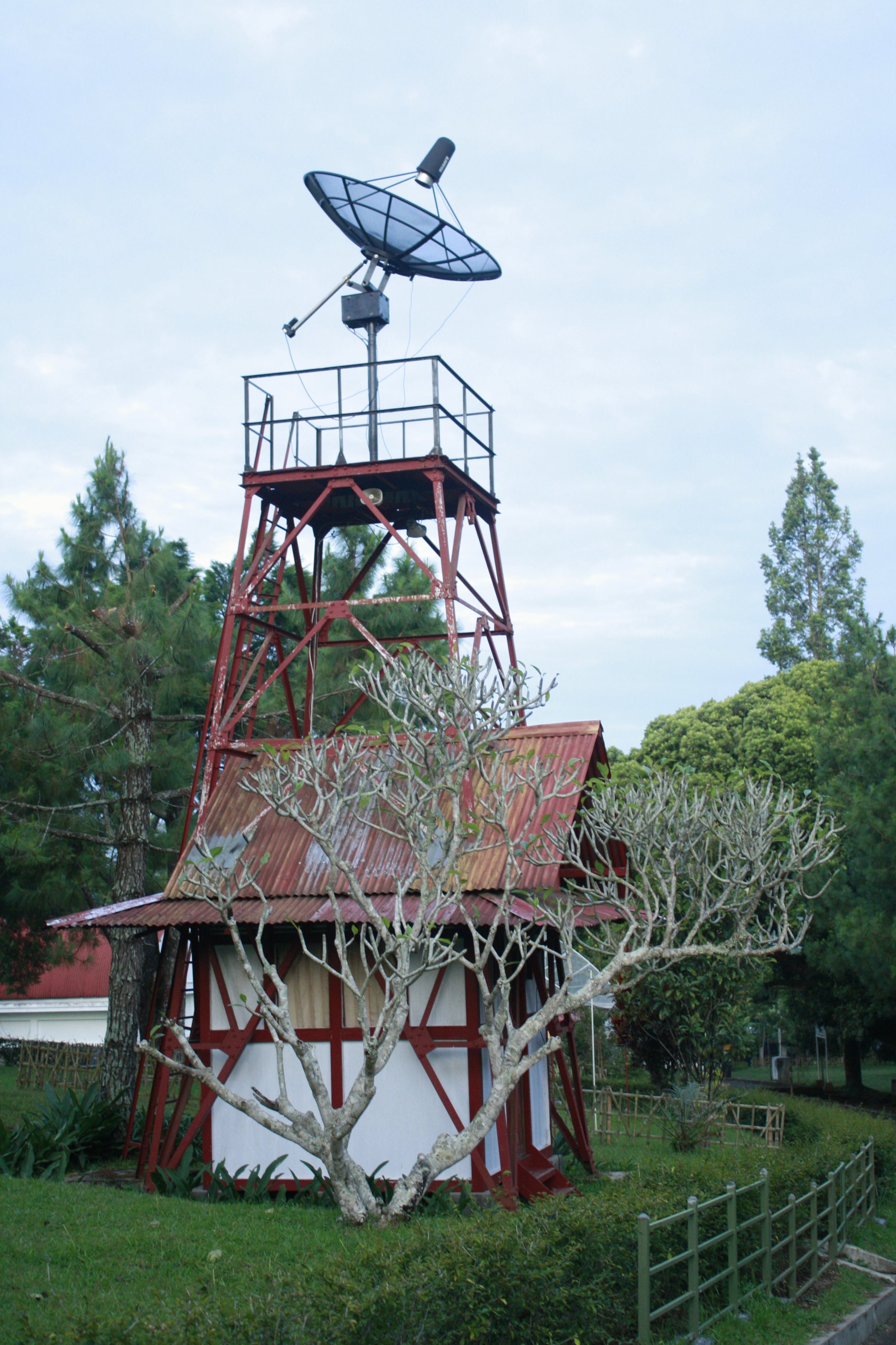 The 2.3 meter radio telescope at Bosscha Observatory, Indonesia.